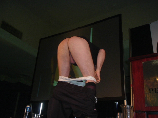 Jello Biafra moons the crowd during his keynote speech at the H.O.P.E. Number Six conference